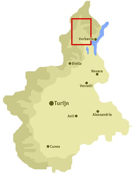 Position of the valley Val d'Ossola